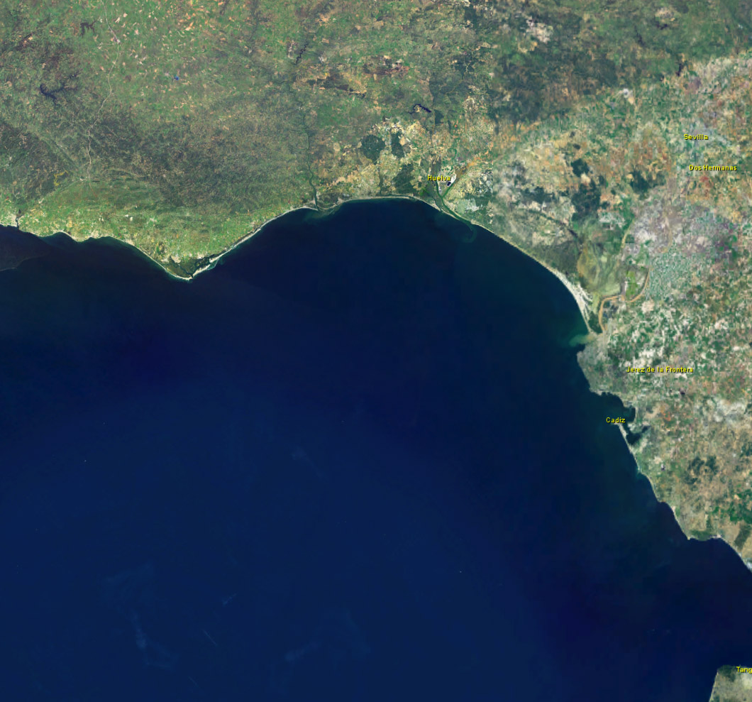 Satellite Picture of the Gulf of Cádiz